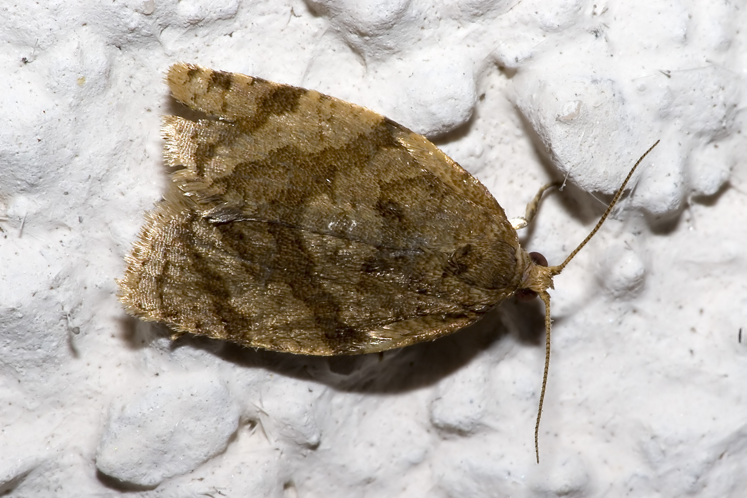 Adoxophyes orana" (Fischer von Röslerstamm, 1834) Many thanks to Kulac and Ruedi Bryner for determination help. Location: Dresden, Pohrsdorfer Weg (Saxony, Germany) 5/180L f16 Film / Speed: ISO 100 Comment: Canon Flash 580EX